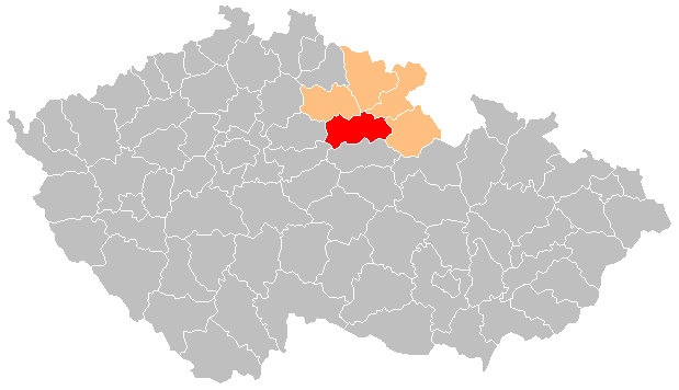 District of Hradec Králové